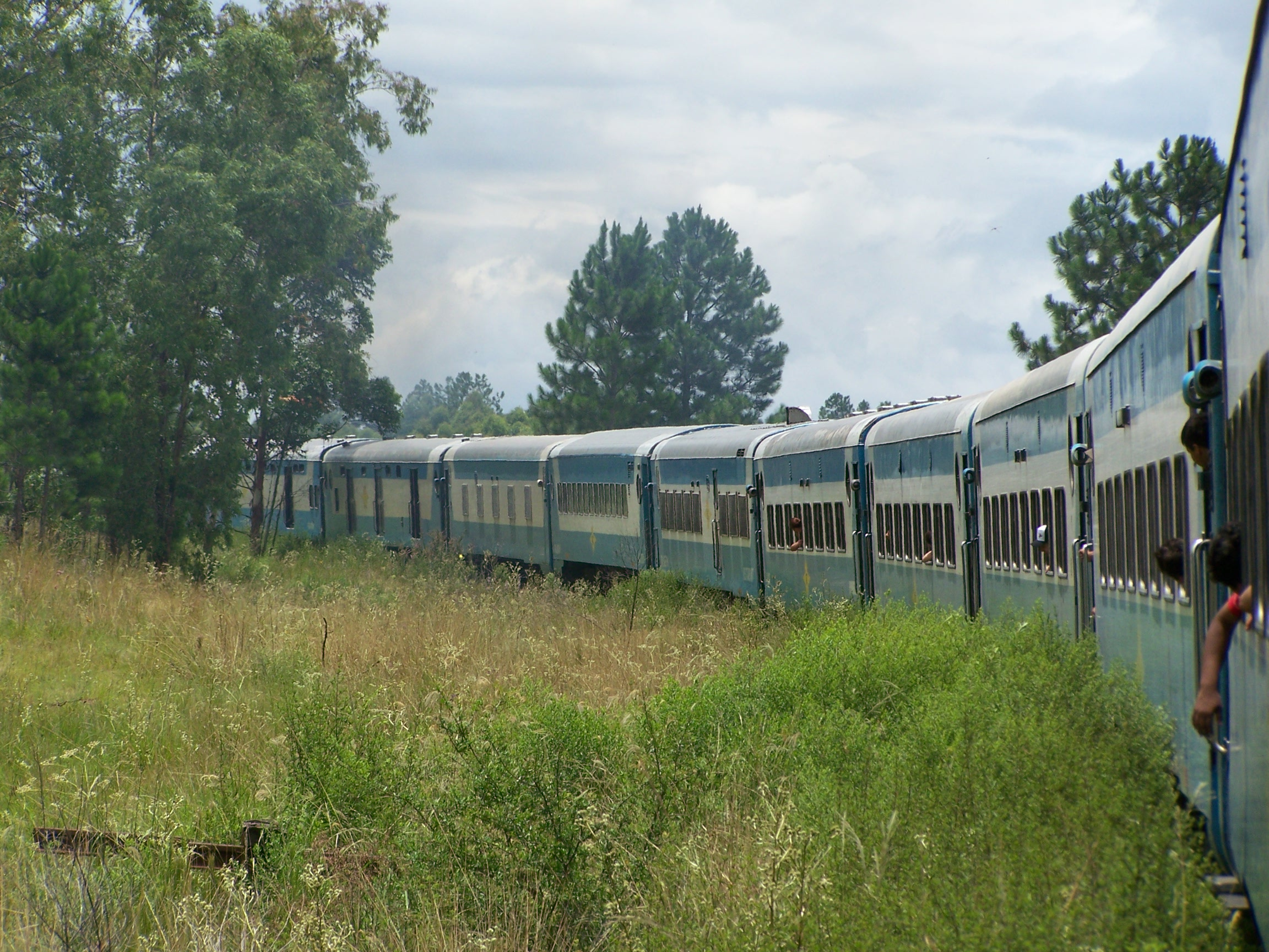 the train "El Gran Capitán" in the Argentinean province of Entre Ríos